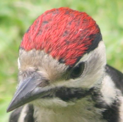 A juvenile Great Spotted Woodpecker.